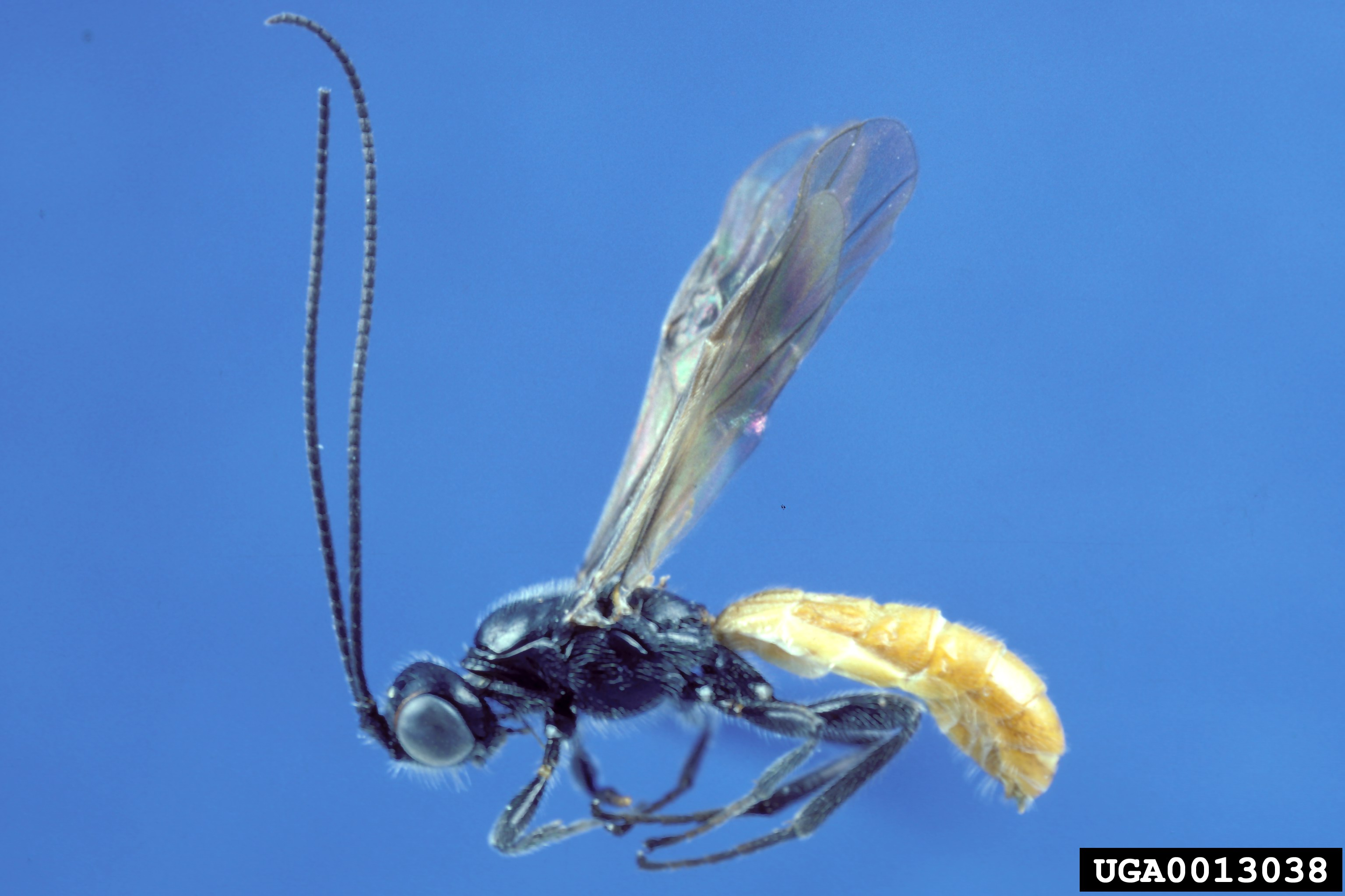 Insect species Atanycolus comosifrons